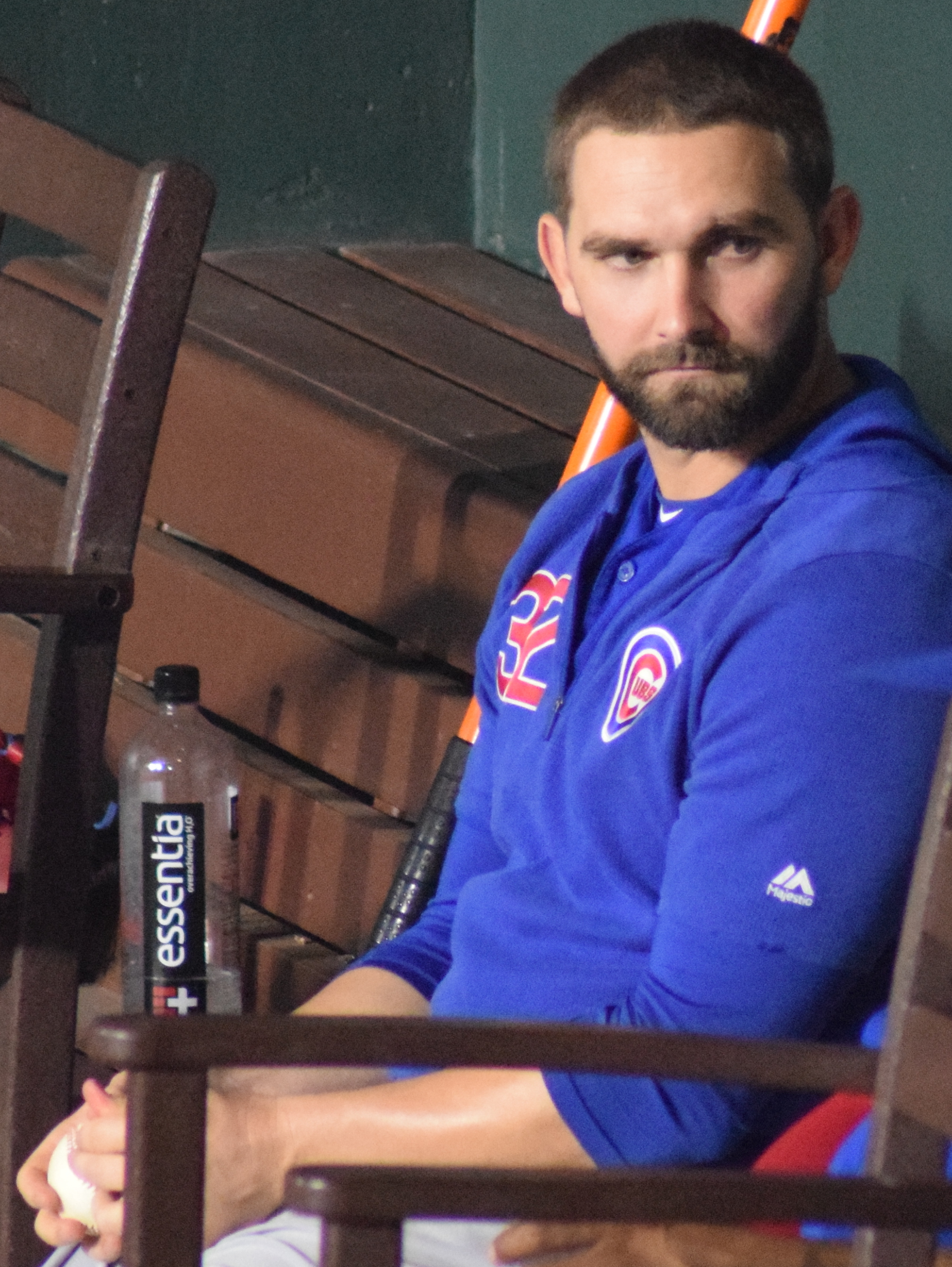 Tyler Chatwood